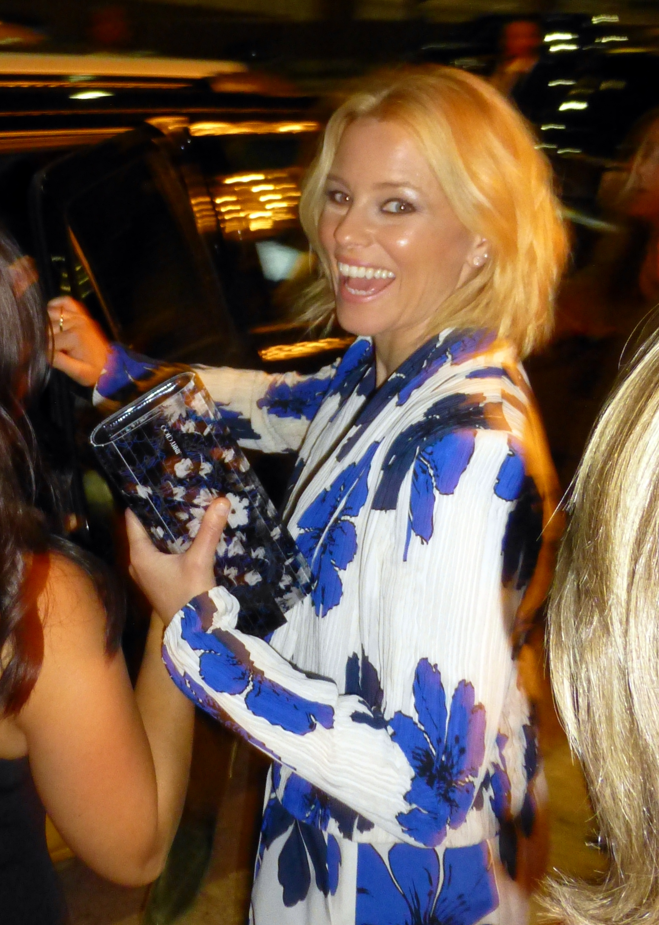 Elizabeth Banks at the premiere of Love & Mercy, Toronto Film Festival 2014